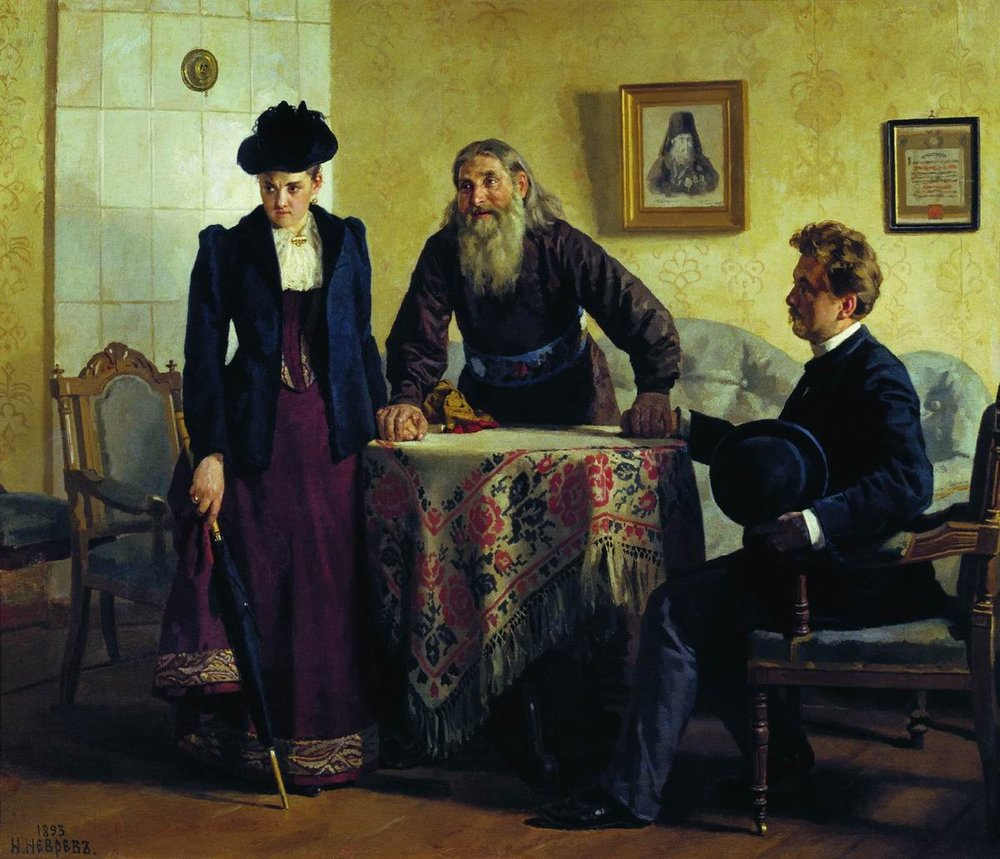 Nikolai Nevrev (1830-1904) Moral Suasion